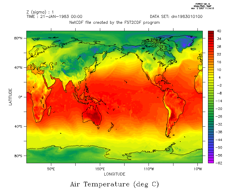 Typical view of the Ferret Data Visualization and Analysis program Author: Andrew Ryzhkov